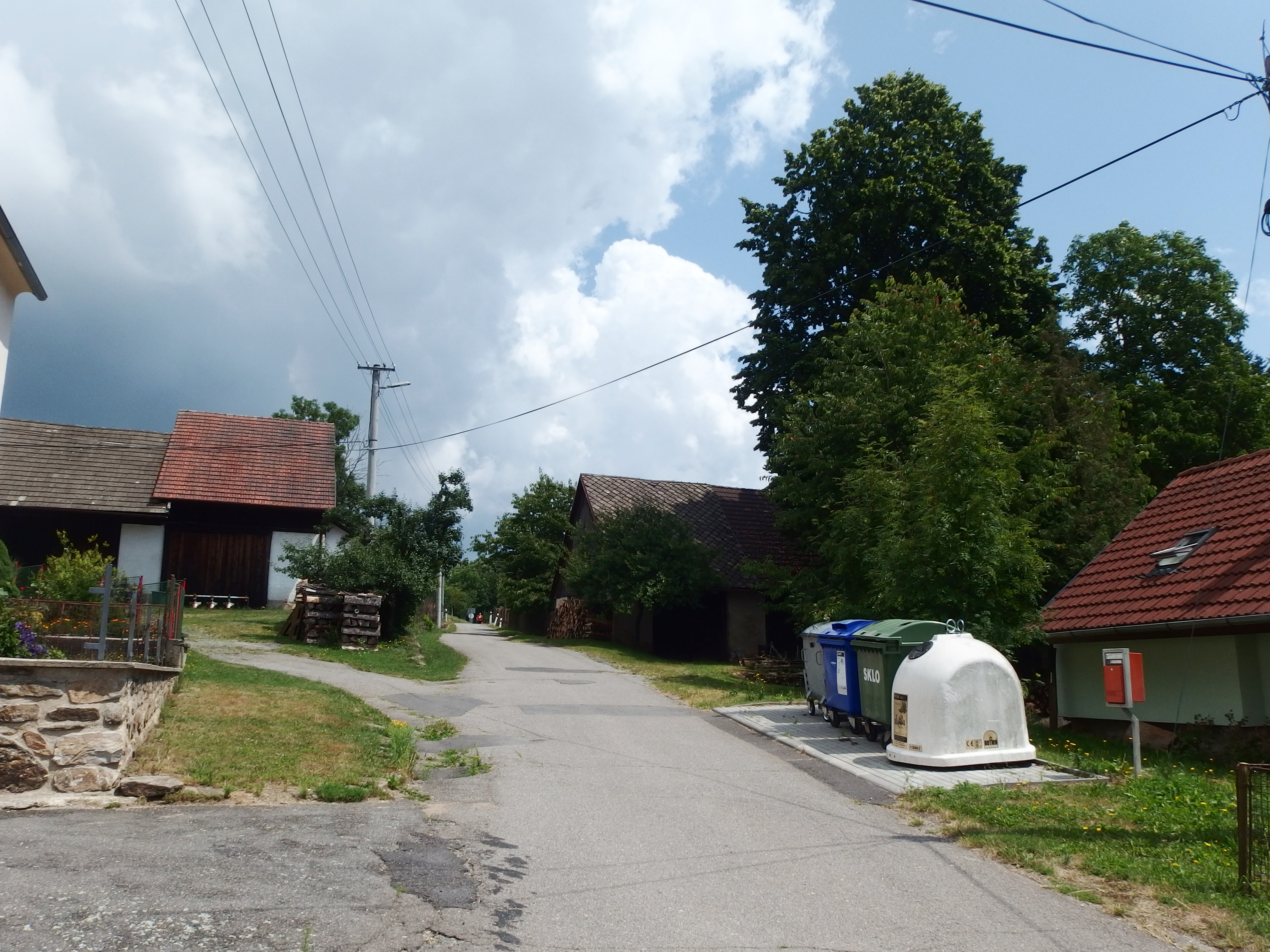 Věžná, Žďár nad Sázavou District, Czechia, part Pernštejnské Janovice.